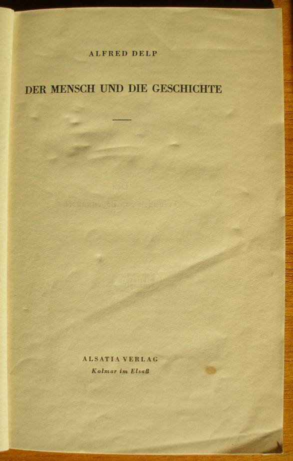 book of Alfred Delp, published in 1943 at Alsatia-Verlag Colmar